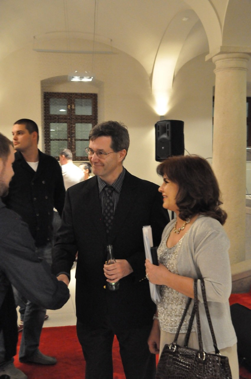 Thomas and Zarin Buckingham, photographed by Lukáš Dvořák.